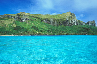 Raivavae island